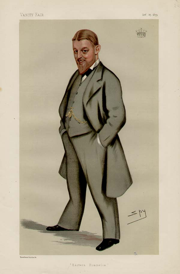 Caricature of John Hely-Hutchinson, 5th Earl of Donoughmore. Caption read "Eastern Roumelia".